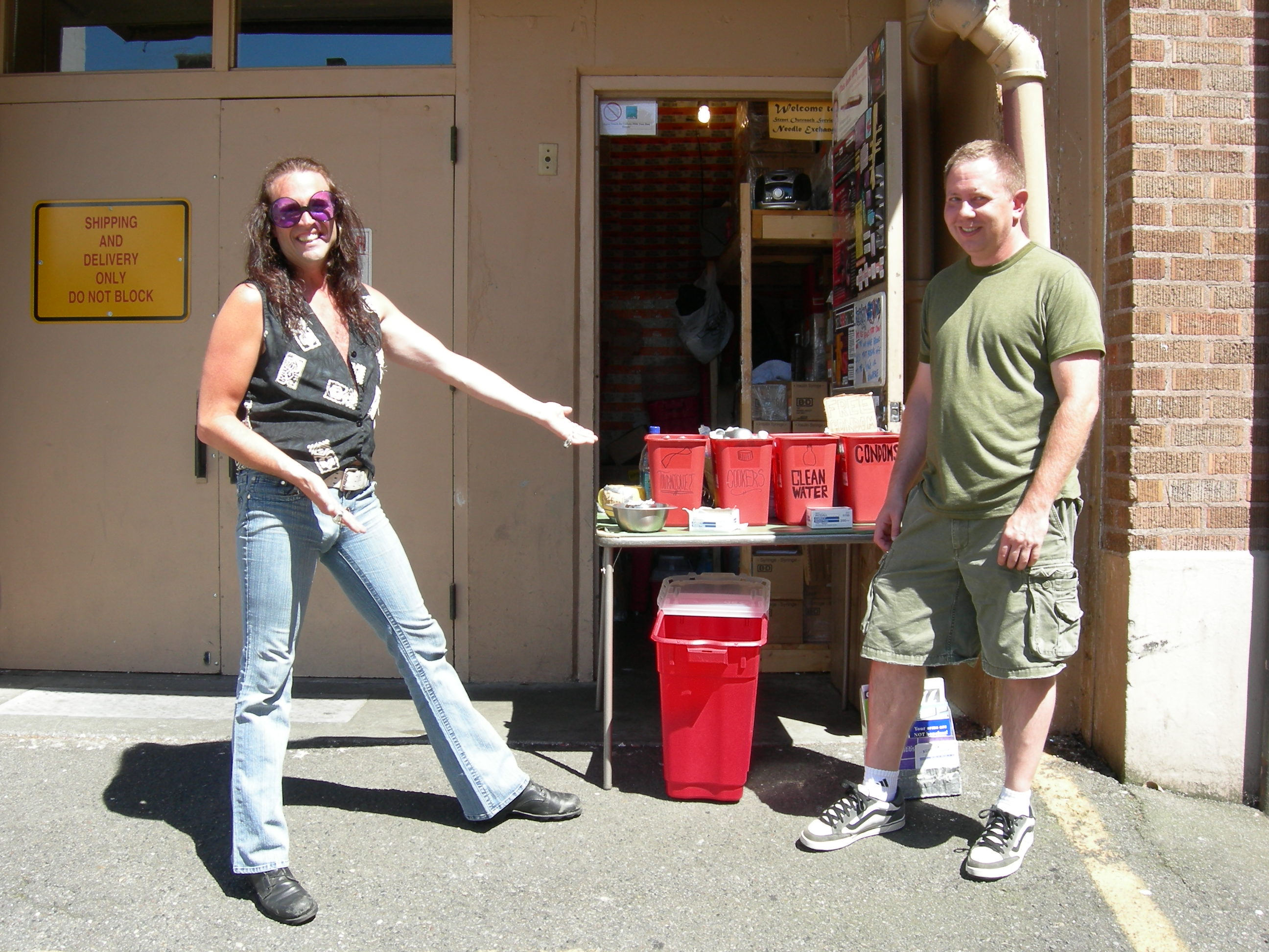 Street Outreach Services needle exchange, on the alley, in back of University Methodist Temple, University District, Seattle, Washington.